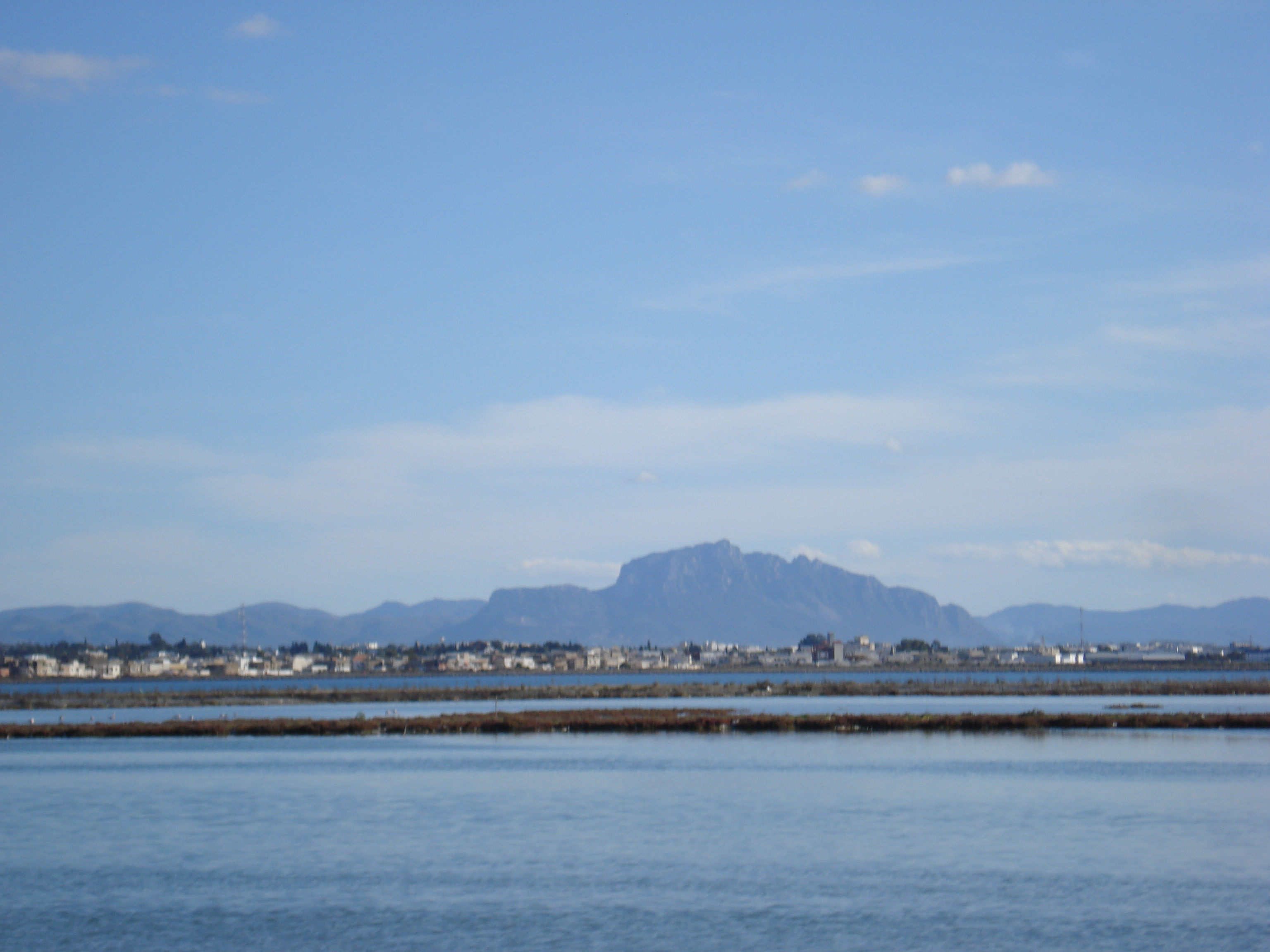 Jebel Ressas as seen from the Lake of Tunis, Tunisia